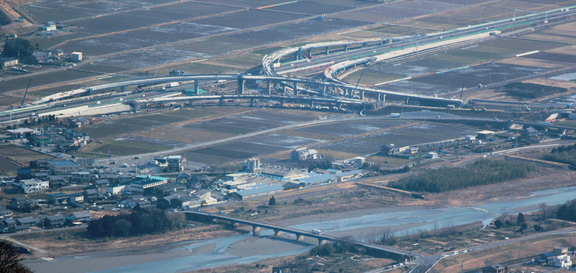 Yōrō JCT under construction and Makita River